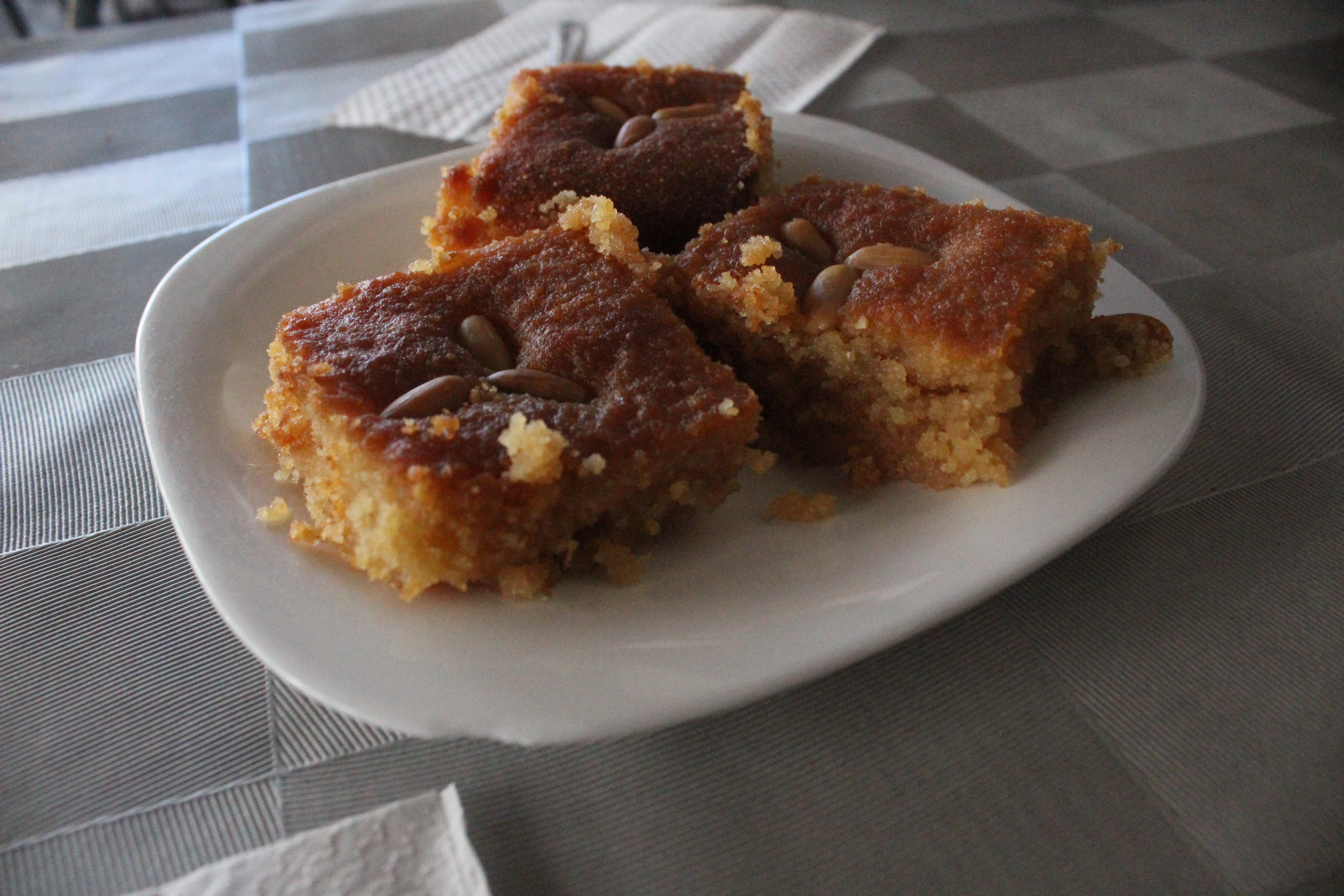 Traditional sweet cake